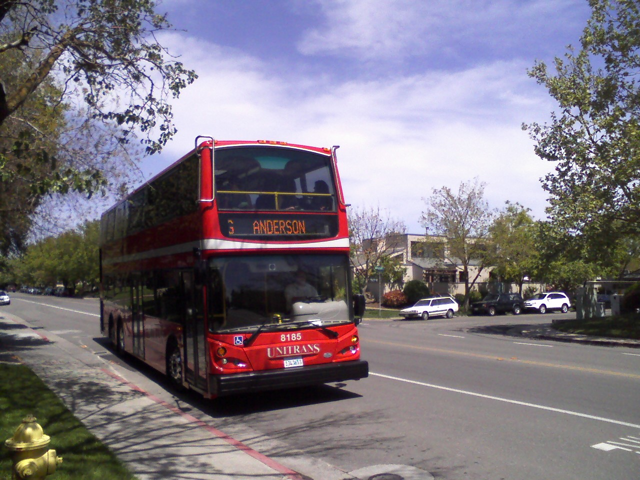 A Unitrans Enviro 500 approaching a stop on Sycamore Lane near Marketplace shopping mall in Davis, California, USA.